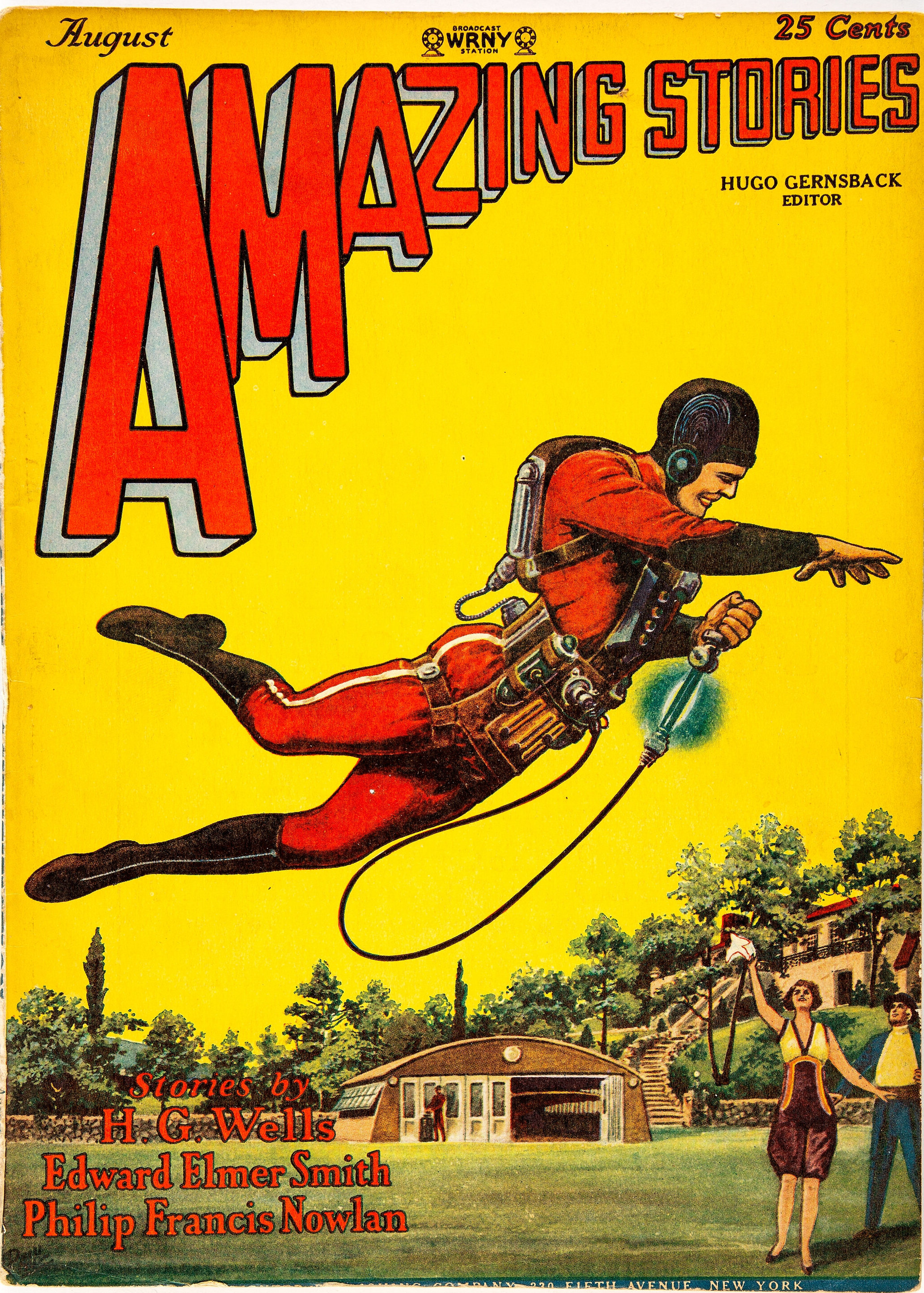 Cover of Amazing Stories, August 1928